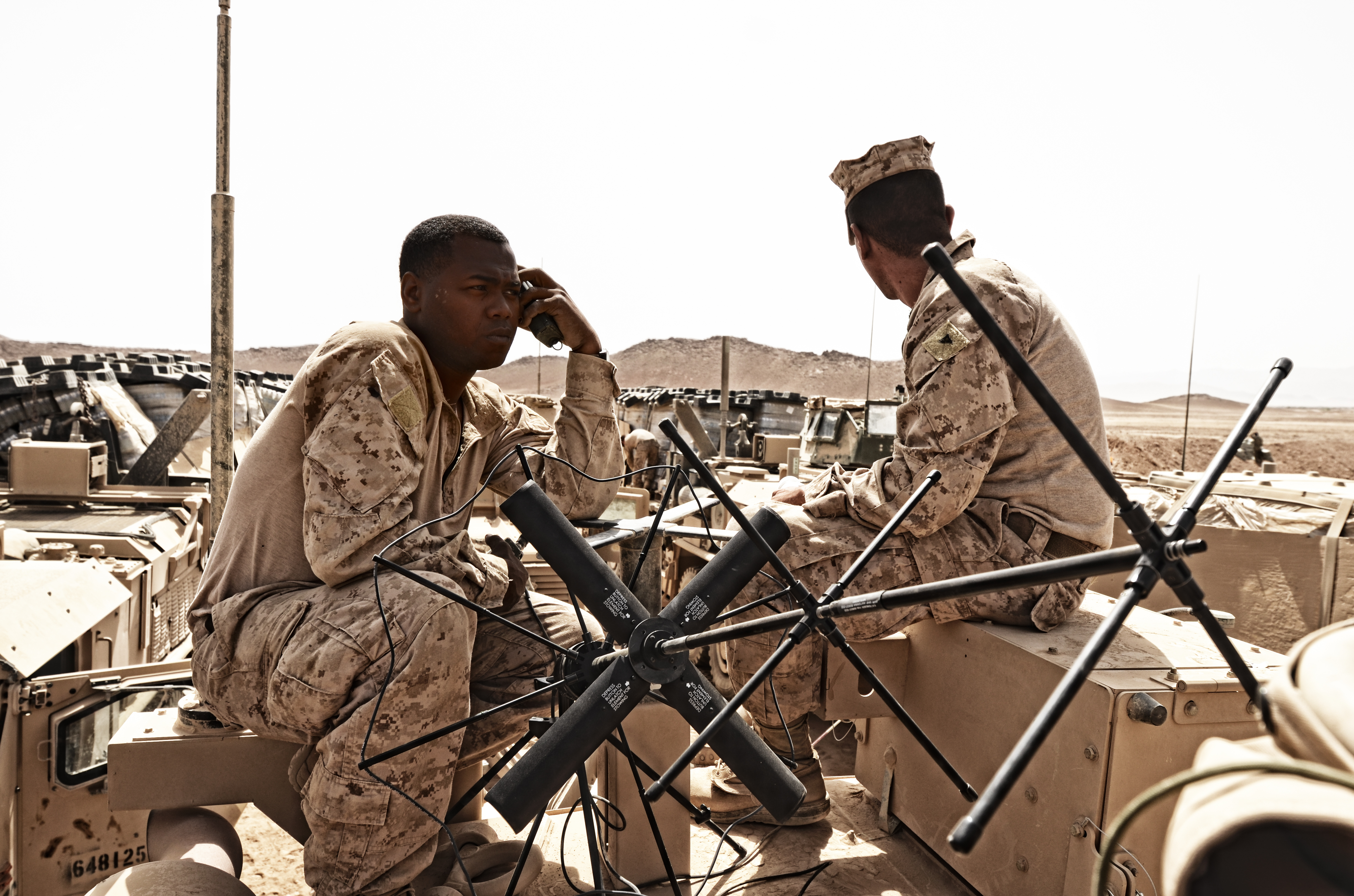 Cpl. David C. Avery III, radio operator, Alpha Company, Combat Logistics Battalion 4, 1st Marine Logistics Group (Forward), establishes communications with battalion headquarters from a forward rearming, refueling and resupply point, May 29. Avery provided communication support to CLB-4 during Operation Branding Iron.